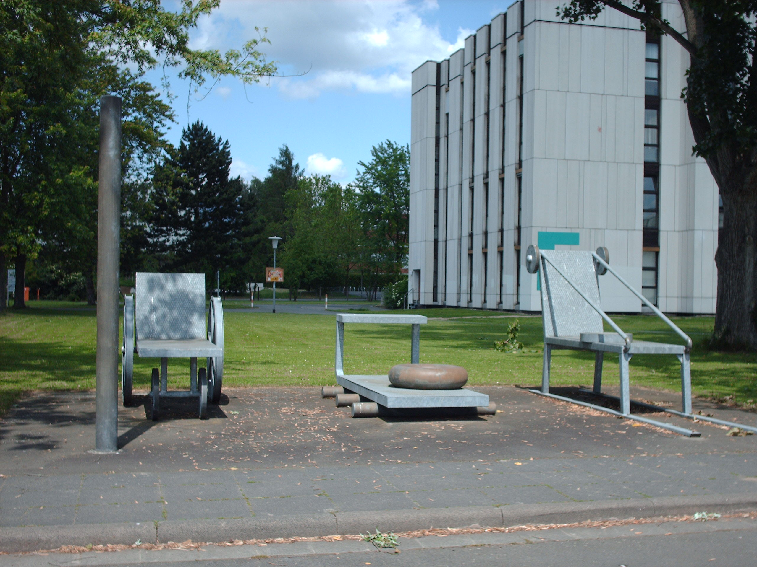 Wagengruppe by Bruno K., part of Gießener Kunstweg, Gießen, Germany check usage